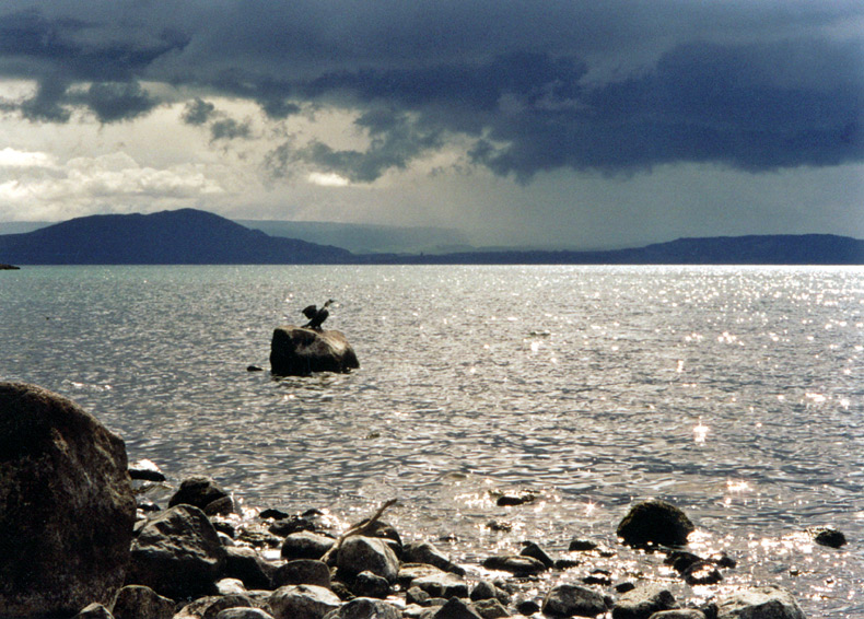 Lake Taupo - northward view with cormorant